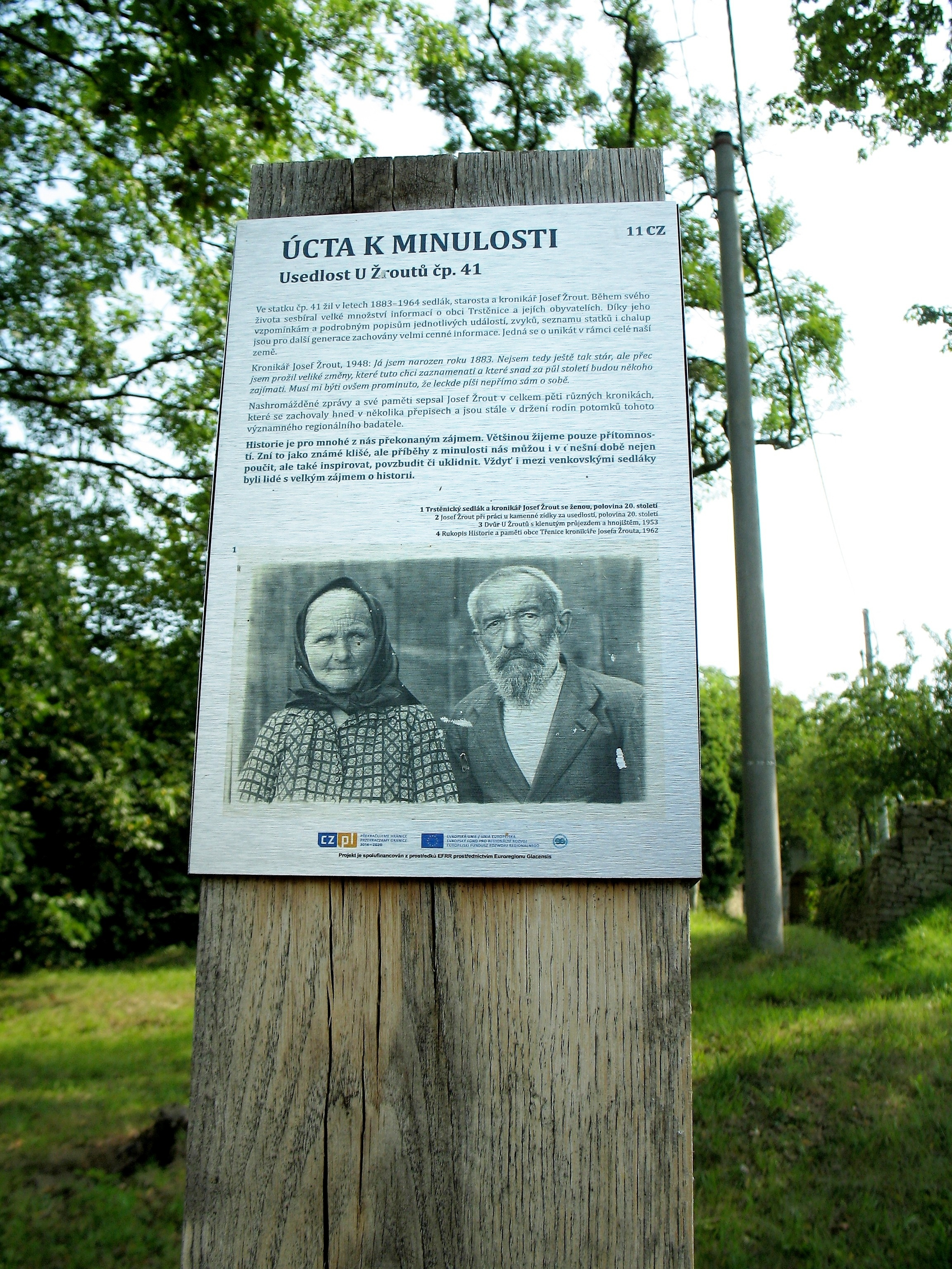 Educational trail Trstěnická stezka, Trstěnice village, Svitavy District, Czech Republic